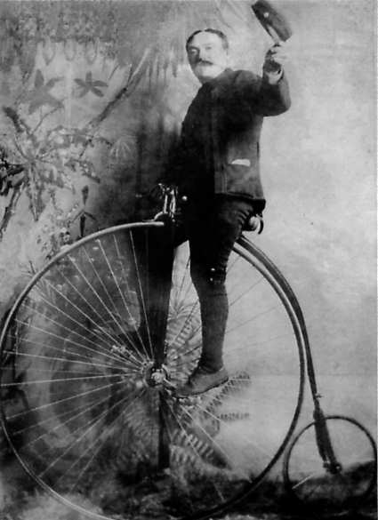 French inventor Pierre Lallemant (1843-1891) riding a penny-farthing in Boston, Massachusetts, in 1886.